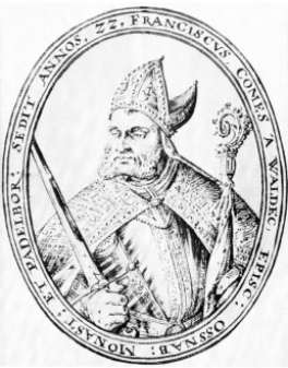 Franz von Waldeck, or Francis of Waldeck (1491 - 1553), was Prince-Bishop of Münster, and a leading figure in putting down the Münster Rebellion.